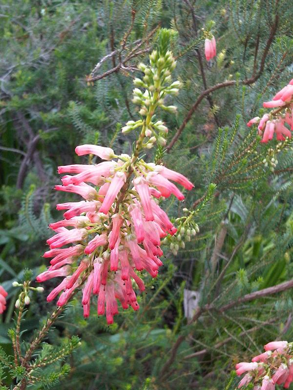 Erica caffra in Kew Gardens, London, England.